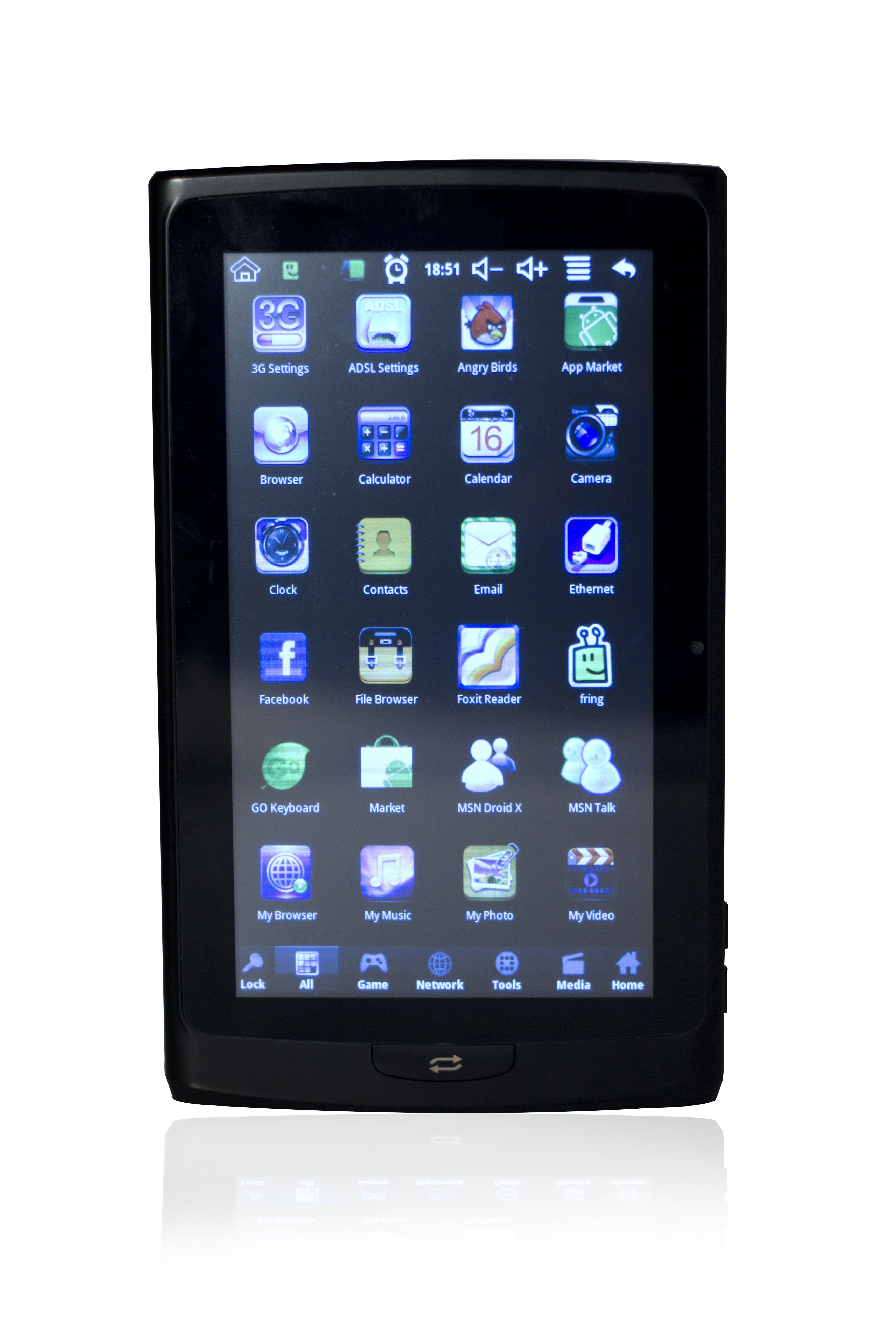 The Wishtel IRA Thing tablet is the world's first Indian language tablet . Seen here from the front.